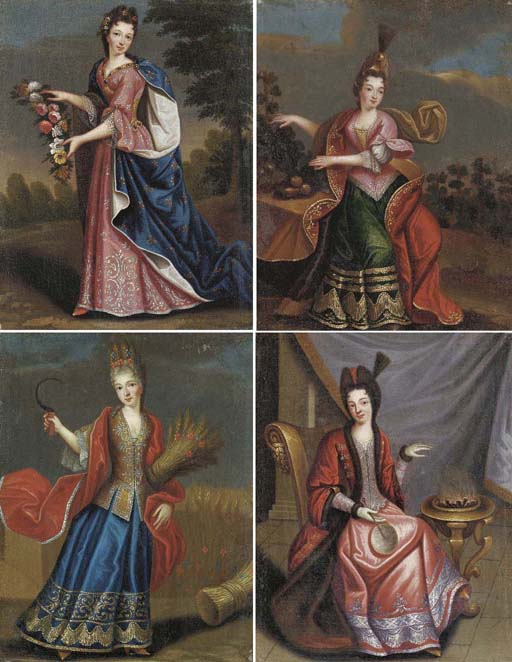 Painting of the four surviving daughters of Henri Jules, Prince of Condé as the four seasons; L-R; Marie Thérèse de Bourbon (1666-1732), Princess of Conti, wearing Fleur de Lis as Spring; Anne Marie Victoire de Bourbon (1675-1700) in green as Summer; Louise Bénédicte de Bourbon (1676-1753) in blue as Autumn; and Marie Anne de Bourbon (1678–1718) sat down as Winter.